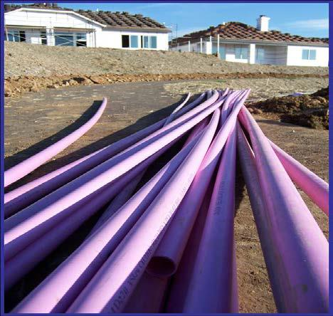 Purple pipe used to distribute reclaimed water.